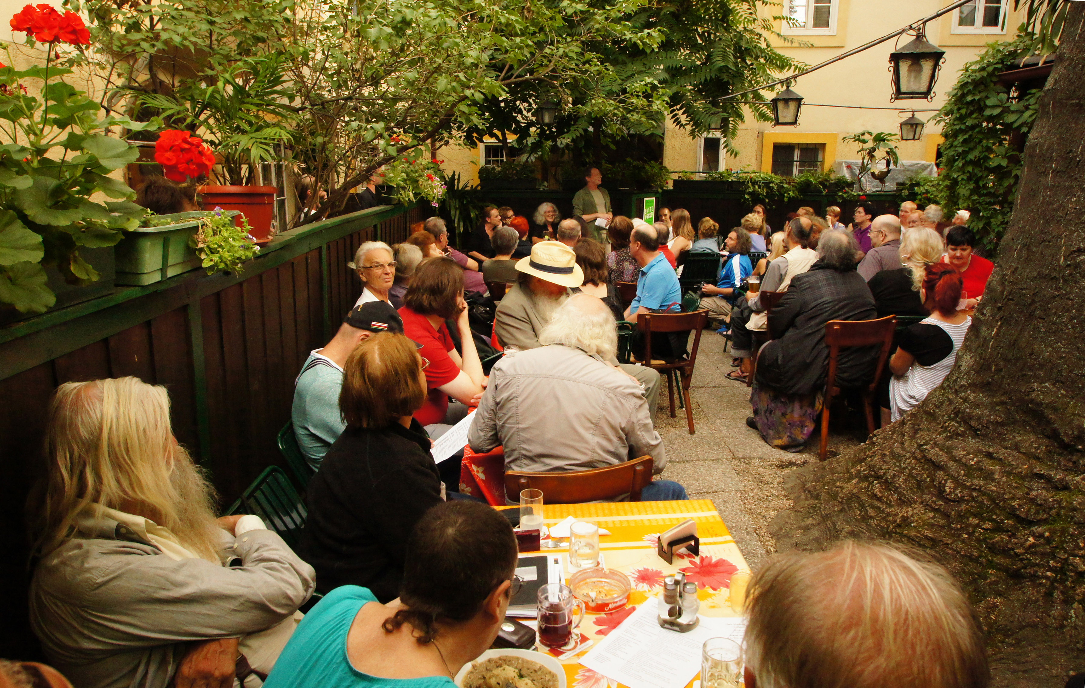 See filename. Shot was taken on occasion of Rolf Schwendter's birthday, 2013, happening on one of Schwendter's favourite locations,. Unfortunately, Rolf deceased on July 21st.